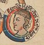 Raymond VII of Toulouse